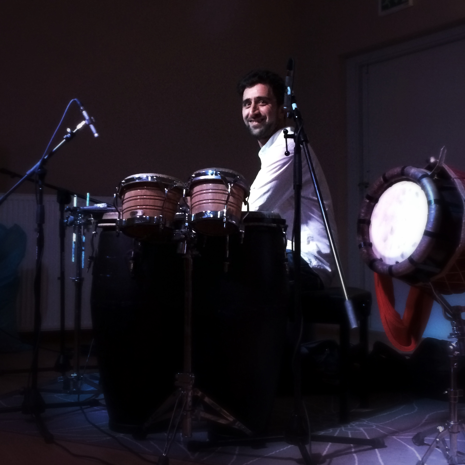 Afra Mussawisade, percussion player from Iran performing with Red Fulka (Praful and Kareem Raihani) in The Netherlands 2014.